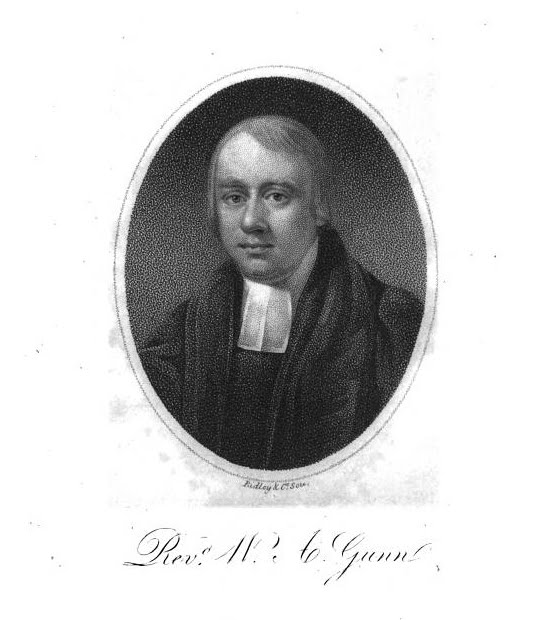 Portrait of William Alphonsus Gunn (1760–1806), English cleric.